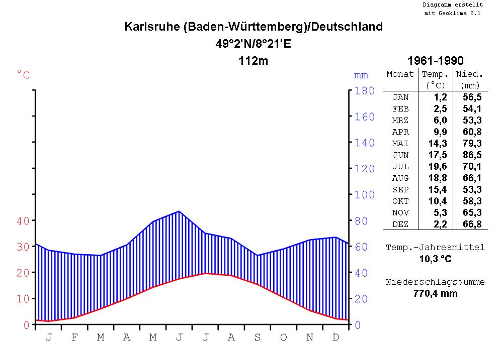 climate chart of Karlsruhe, Baden-Württemberg, Germany, for the period of time from 1961 to 1990, in the format by Walter and Lieth, metric, °Celsius and millimeters, chart made with Geoklima 2.1, label in German